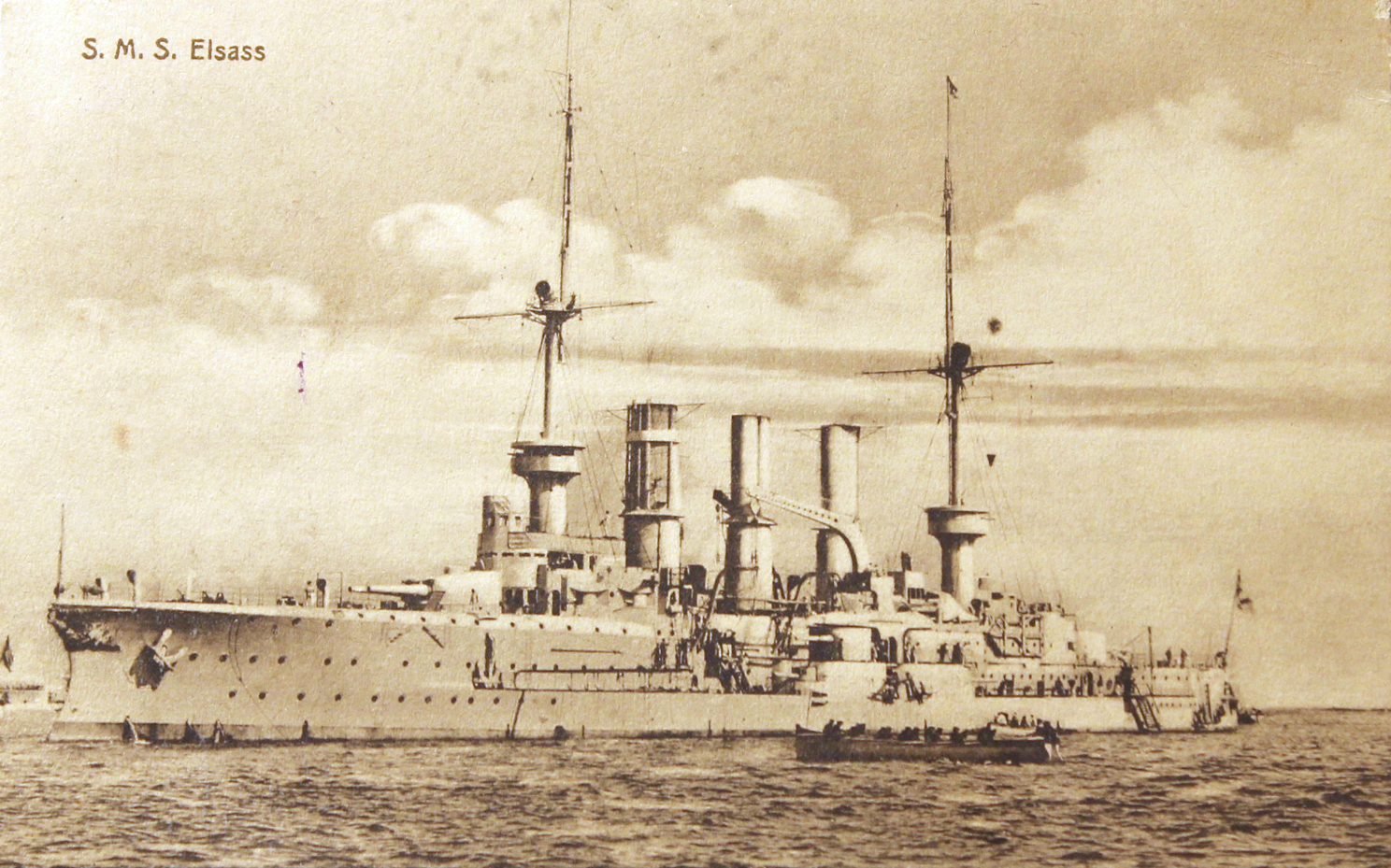 German postcard of a Prinz Adalbert class cruiser, mis-identified as the battleship Elsass